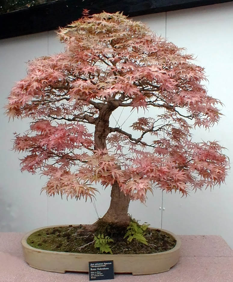 Bonsai "Roter Fächerahorn", picture taken on May 20th, 2000 in Heidelberg (Germany)